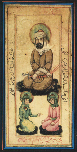 Ali and his two sons - Inv. no. 2003, 197, 5. MuCEM